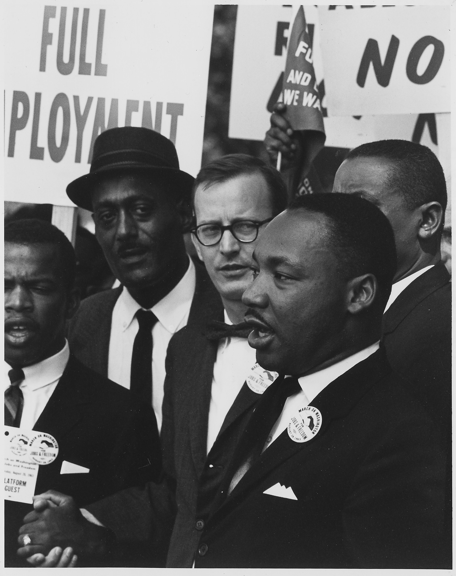 Martin Luther King